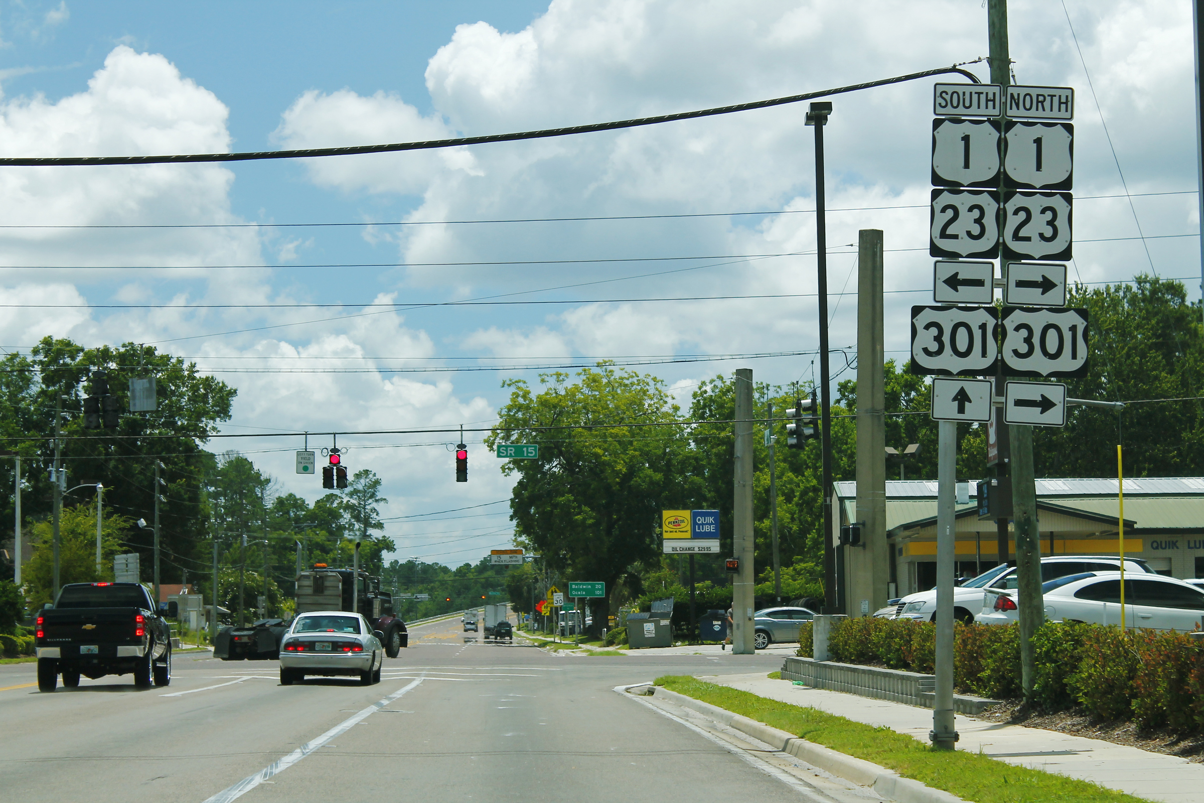 A1AnRoadEnd-US1nsUS23nsUS301ns-CallahanFL